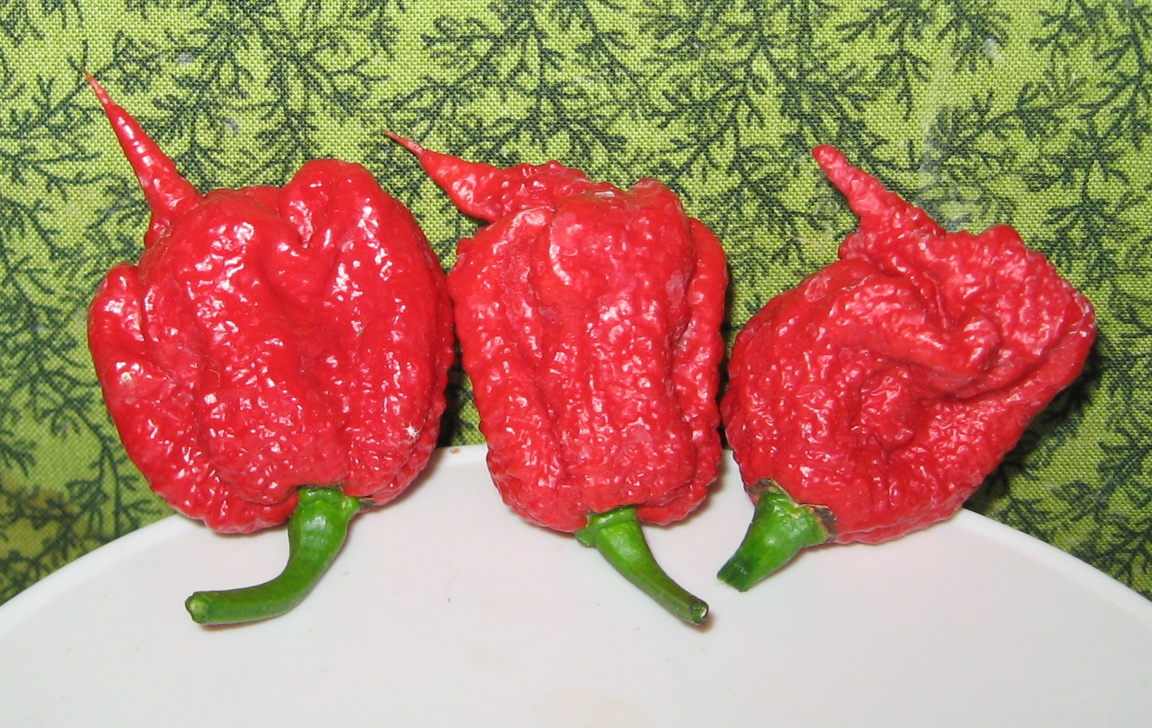 Carolina Reaper pepper pods harvested in November, 2013 in West Valley City, Utah, United States of America